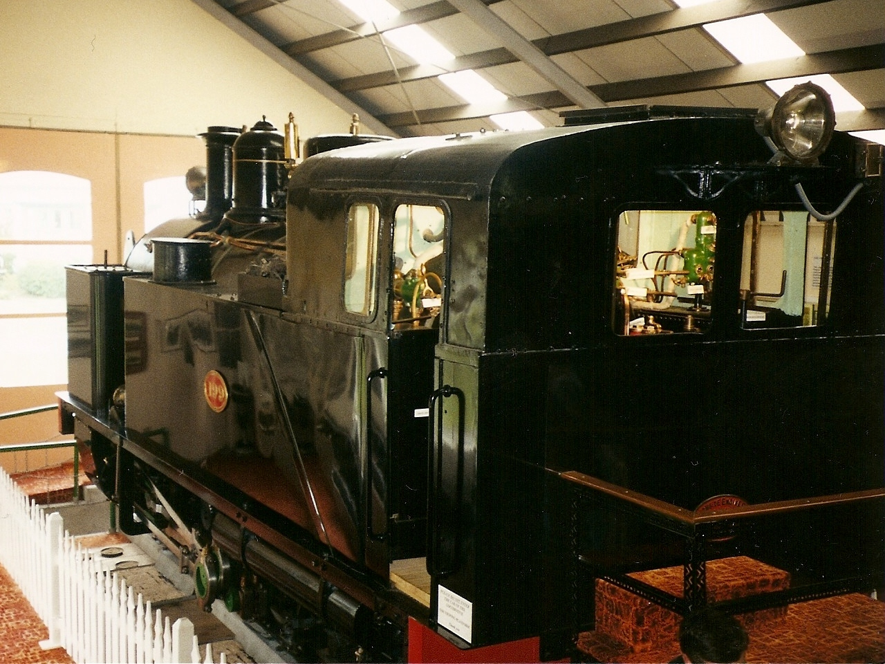 The Fell Engine Museum in New Zealand, showing Fell railway H class engine H199